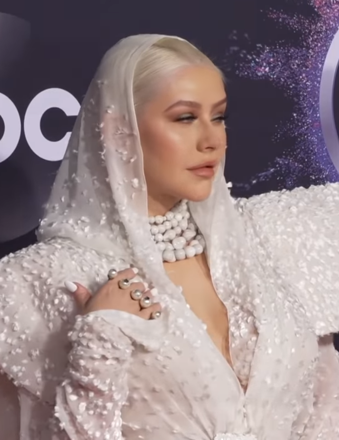 Christina Aguilera at The 2019 American Music Awards red carpet